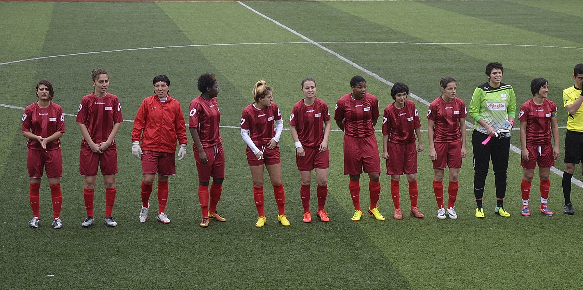 Ataşehir Belediyespor squad in the home match against Konak Belediyespor in the 2013-14 season